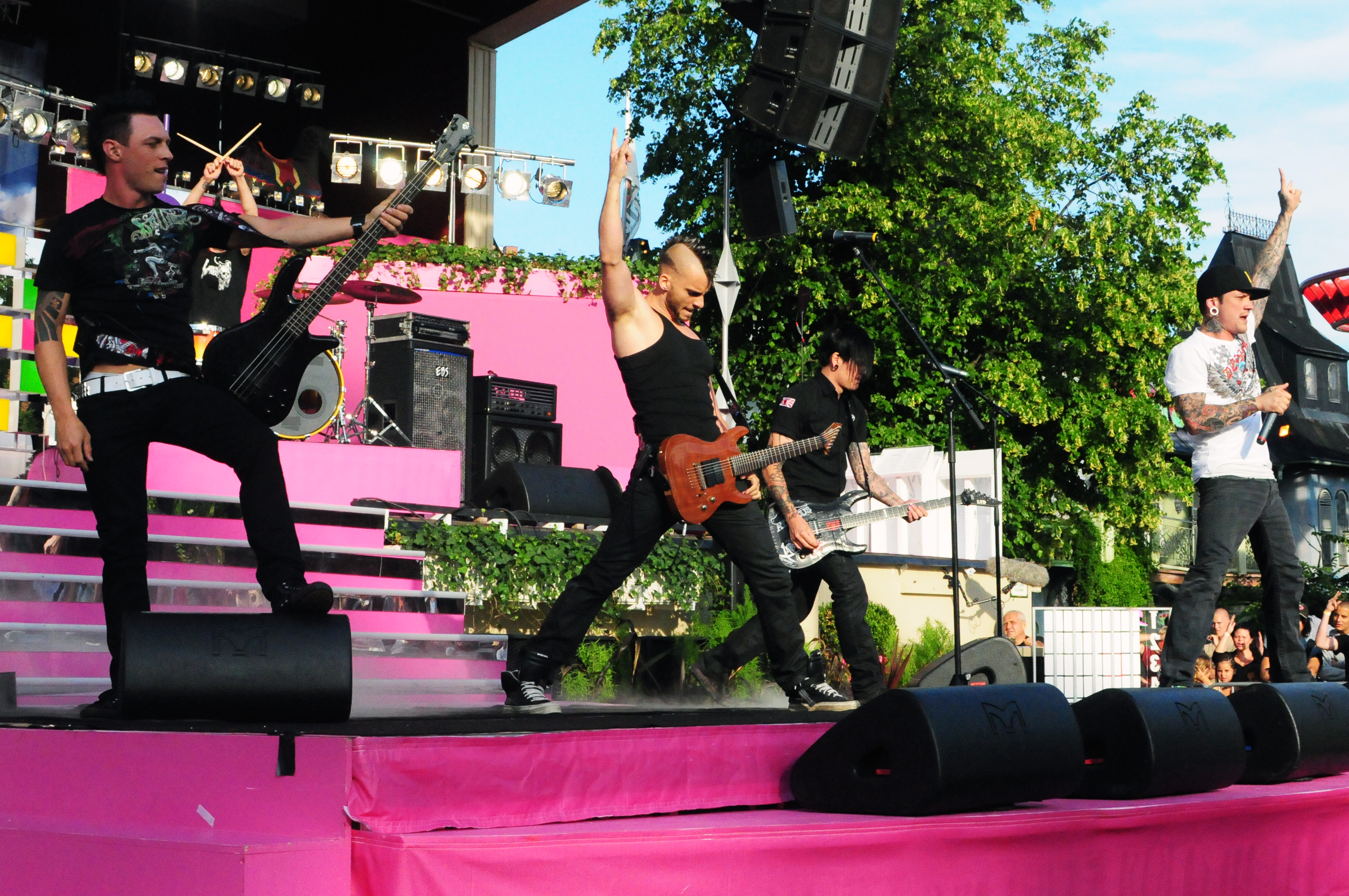 Dead By April at Sommarkrysset 2009